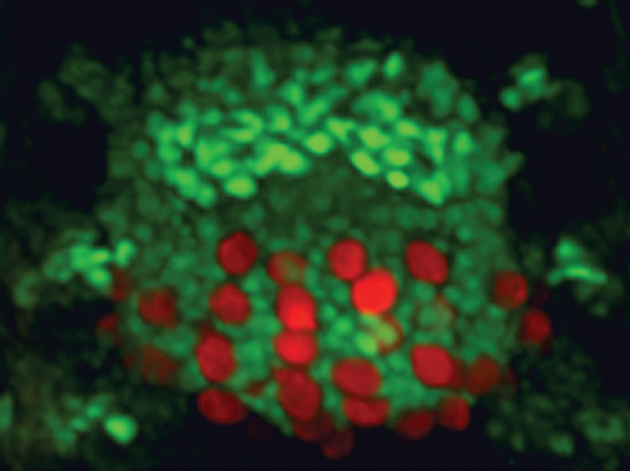 Drosophila germ cells (green) migrating through the gut epithelium (red). See also